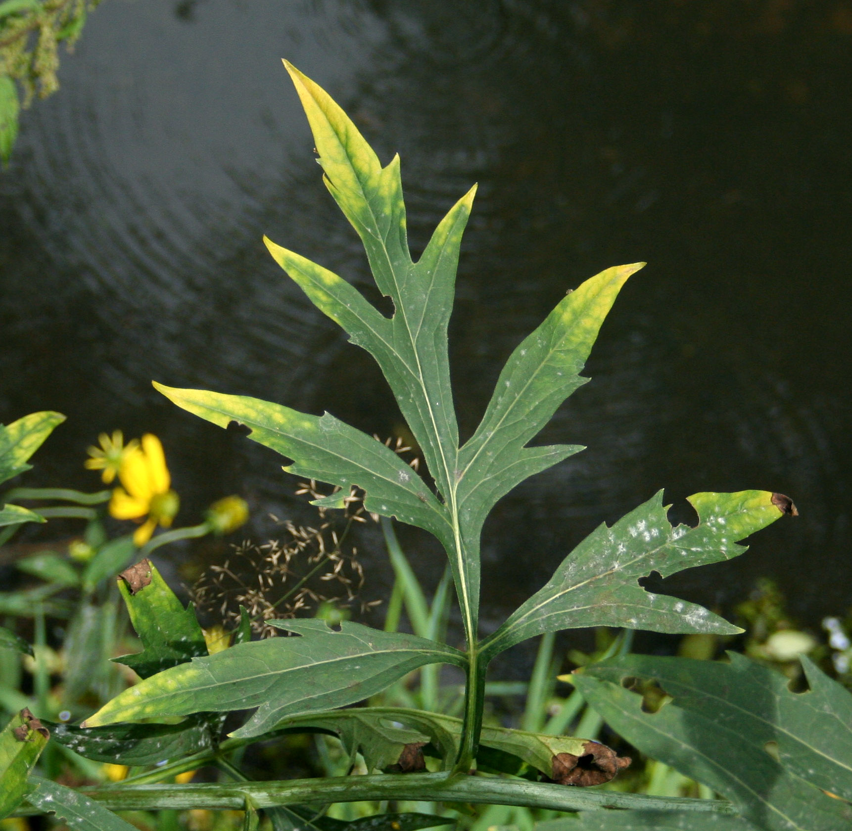 Rudbeckia laciniata - leaf